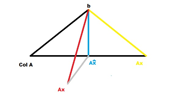 Interpretação Visual